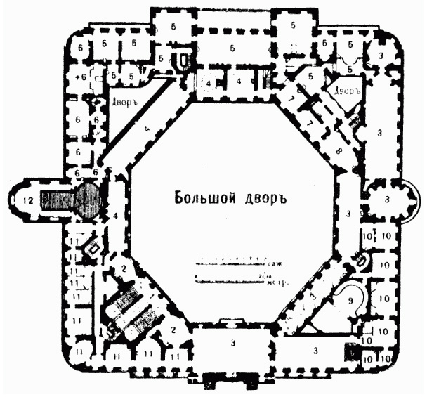 Vincenzo Brenna's plan of St. Michael's Castle in St. Petersburg